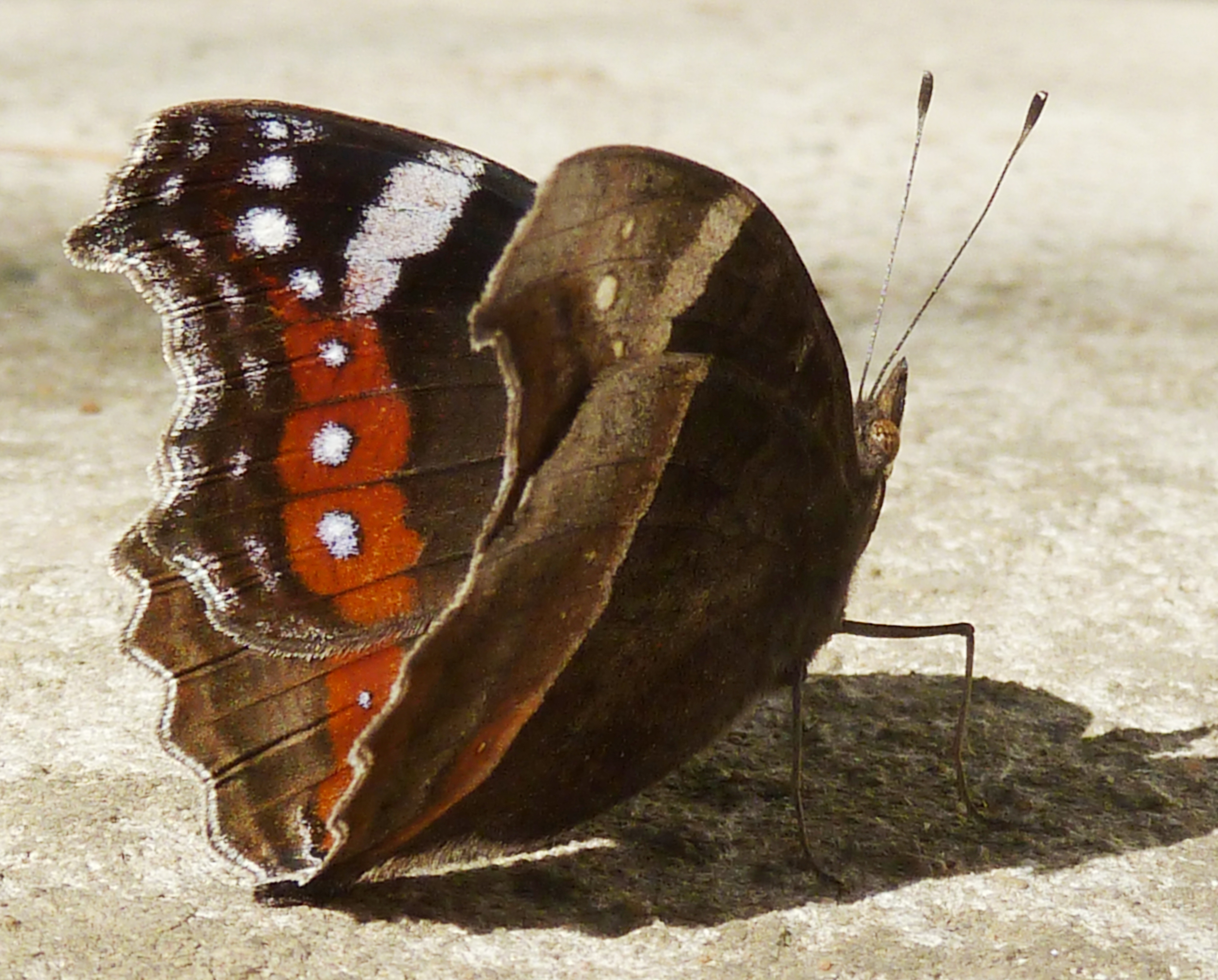 Garden Commodore in suburban Pretoria, South Africa